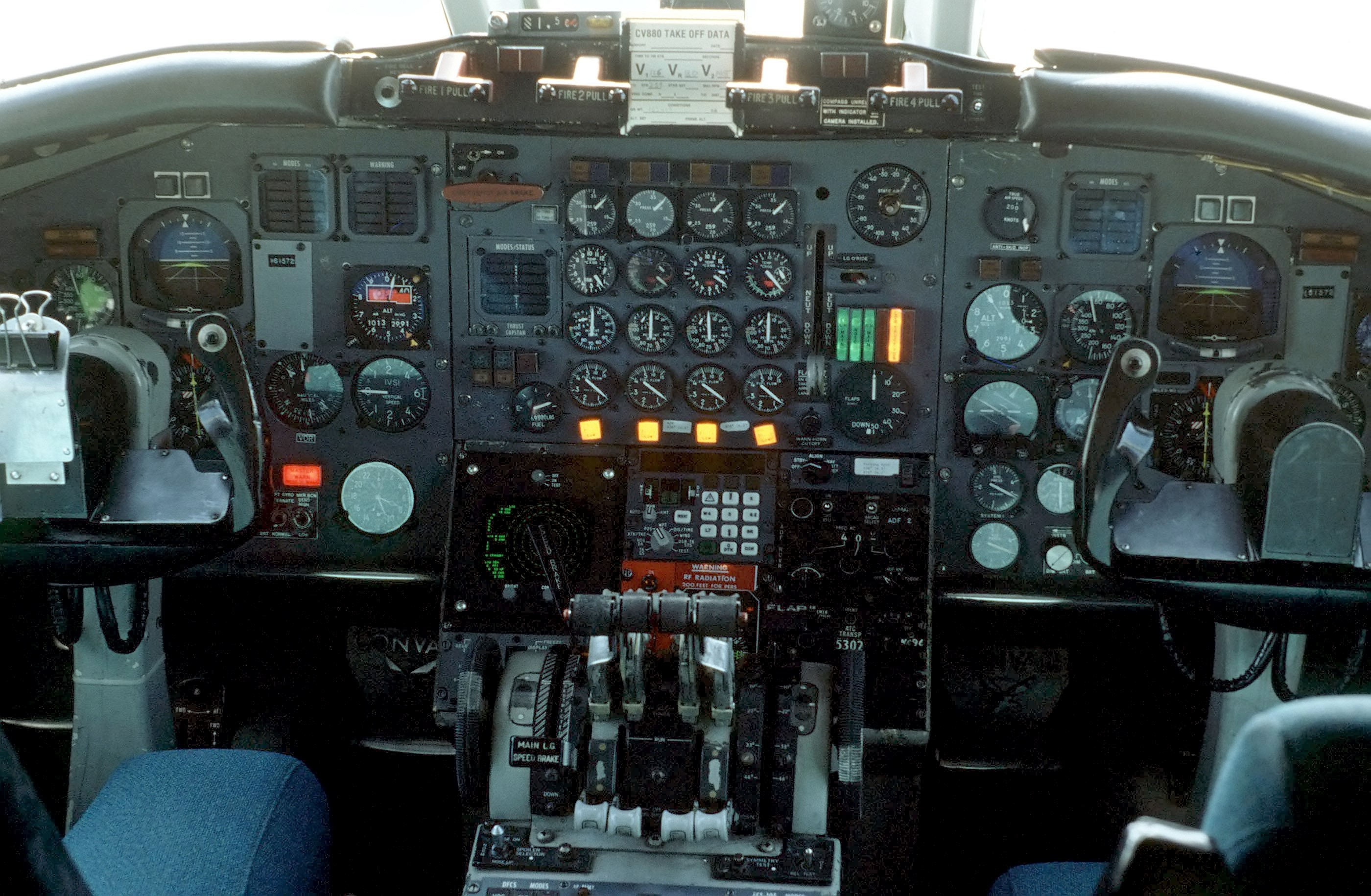 The instrument panel of a UC-880 aircraft on display at the open house air show. Location: NAVAL AIR STATION PATUXENT RIVER, MARYLAND (MD) UNITED STATES OF AMERICA (USA)